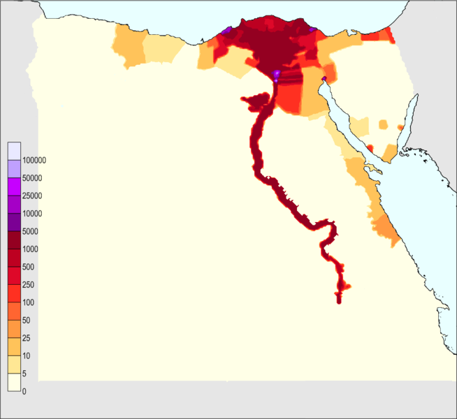 Egypt 2010 estimated population density per square kilometer. Data